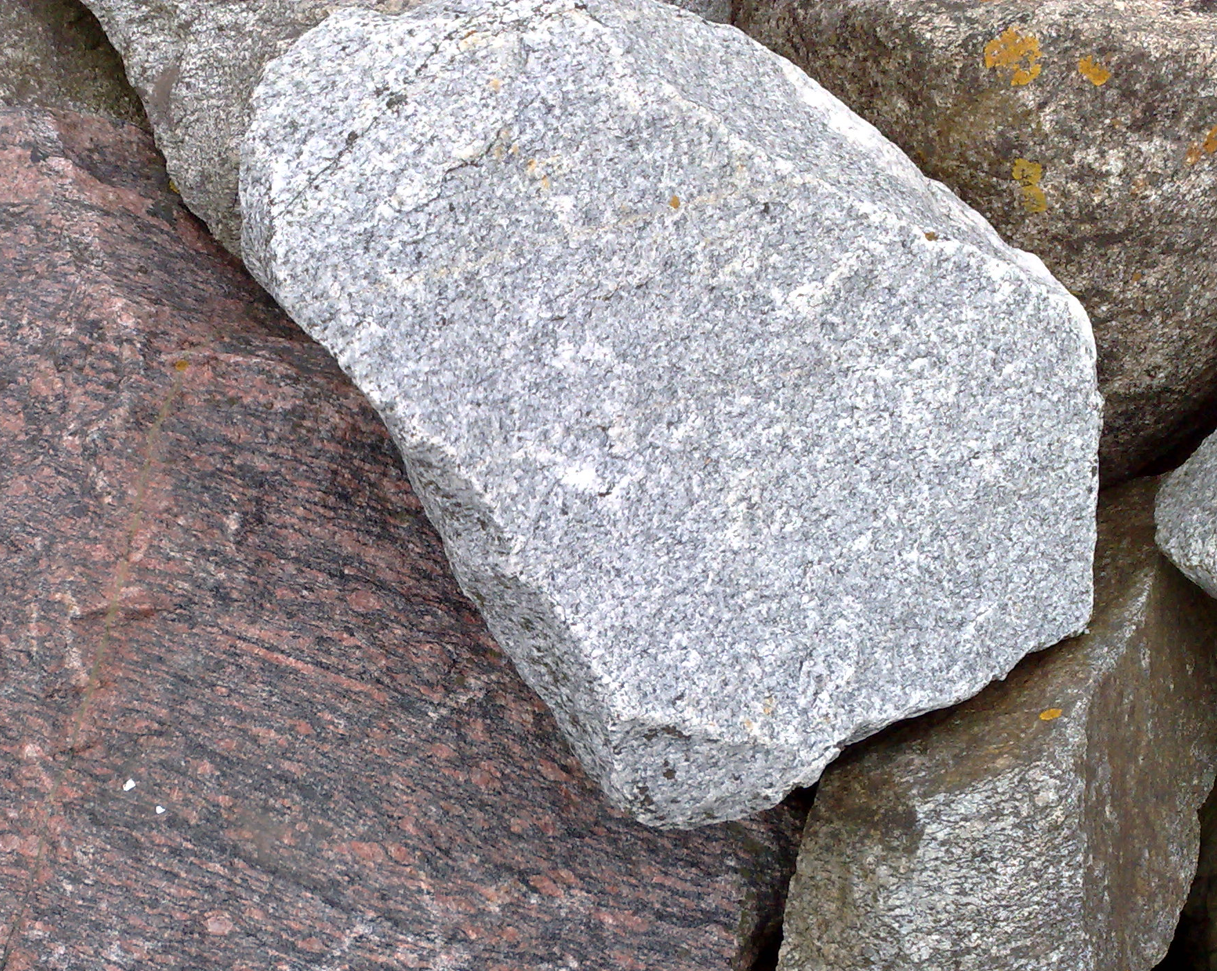 A piece of tonalite on red granite gneis bottom. The picture is from Tjörn in Sweden.